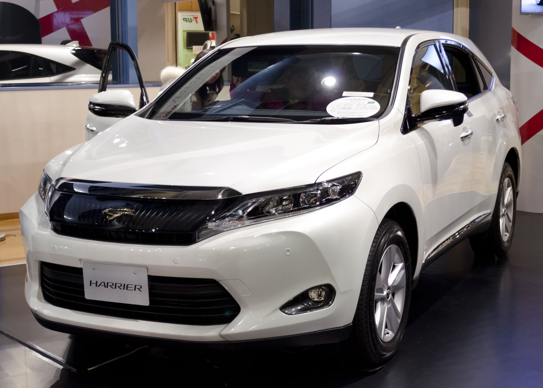 3rd generation Toyota Harrier